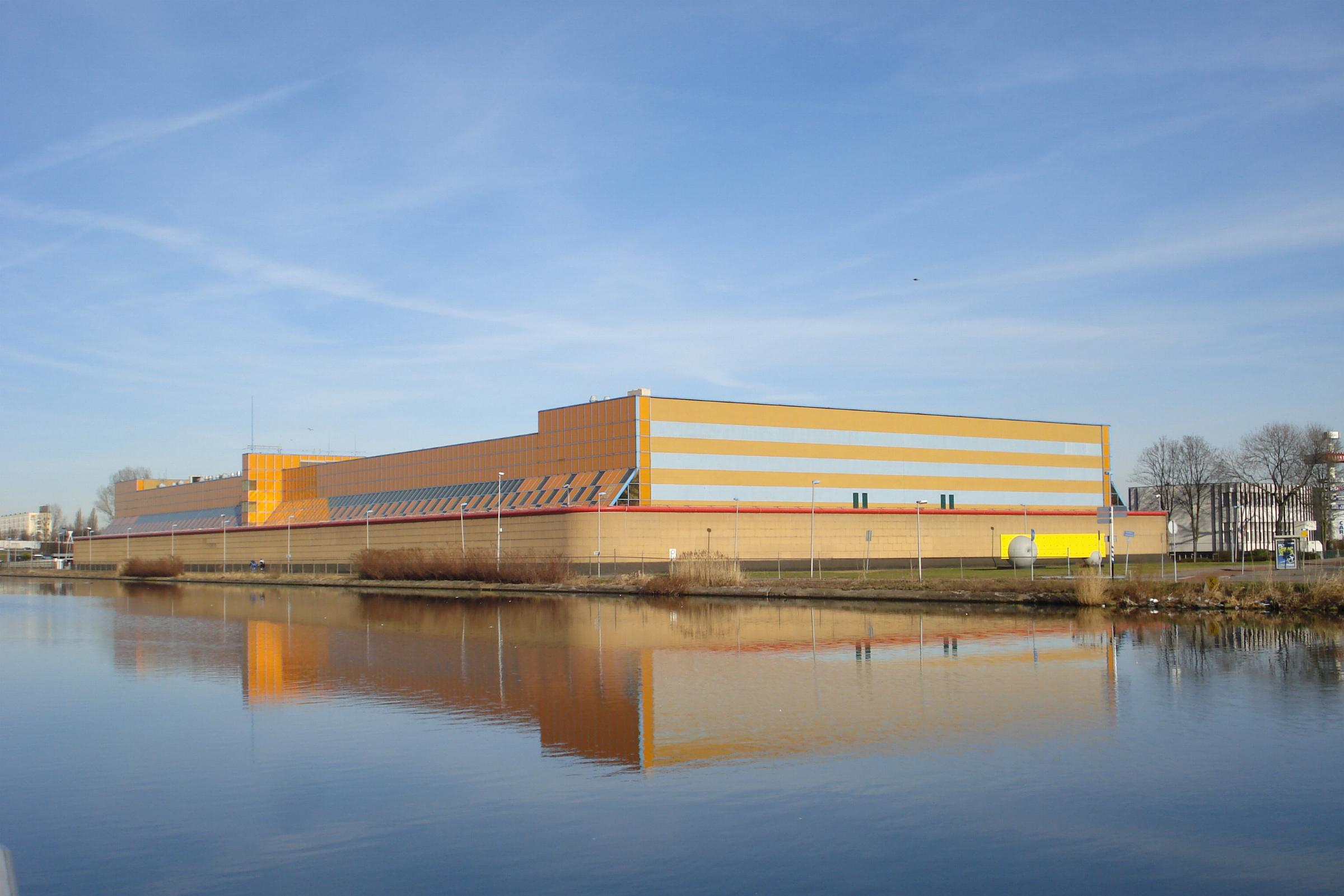 Rotterdam, gevangenis de Schie. Peter Struycken 1988-1989: Prison 'De Schie', A. van Stolkweg, Rotterdam (The Netherlands) (architect C. Weeber): Design of tiling façade (on three sides of the building) and color scheme for the interior of the cells